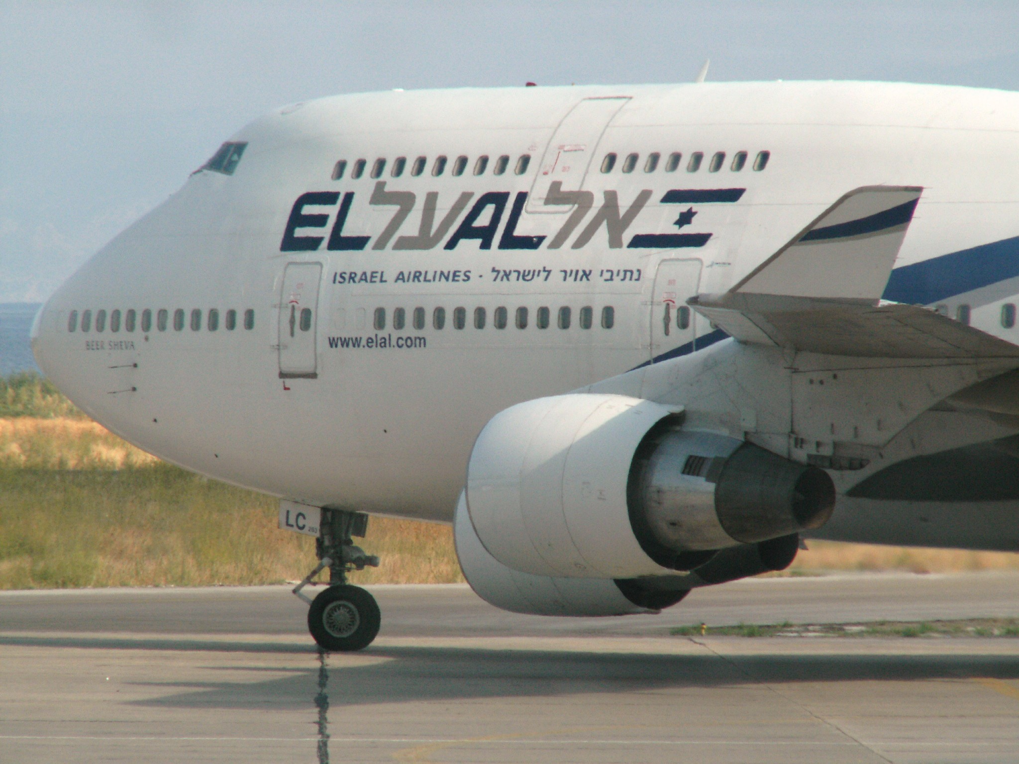 El Al Boeing 747-400 "Beer Sheva" at Rhodes International Airport